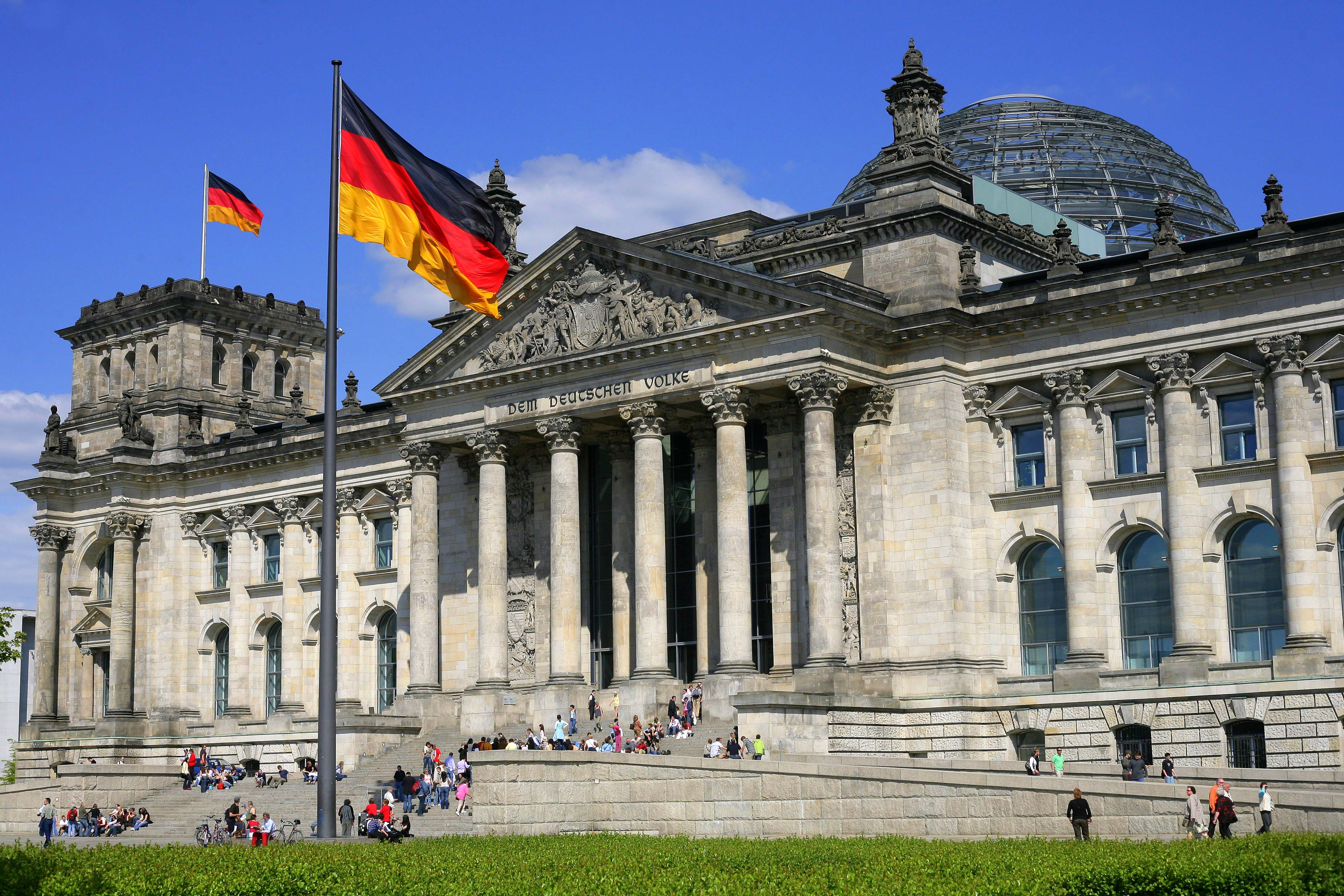 Reichstag